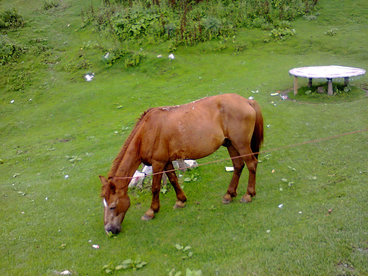 A hill pony grazing near a bench hills of KPK Pakistan